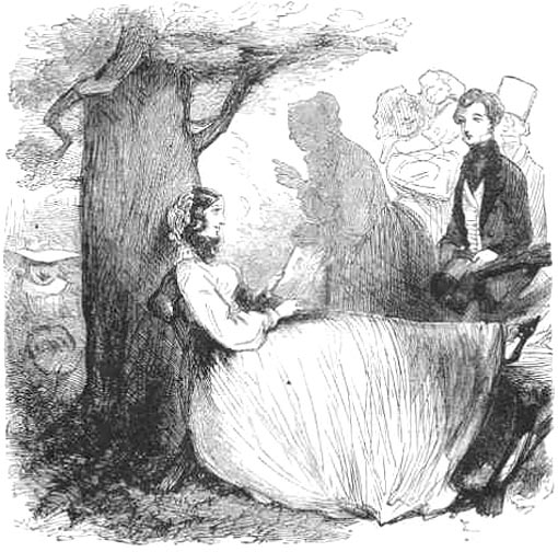 Great Expectations, Pip and Mrs Pocket in the garden at Hammersmith.